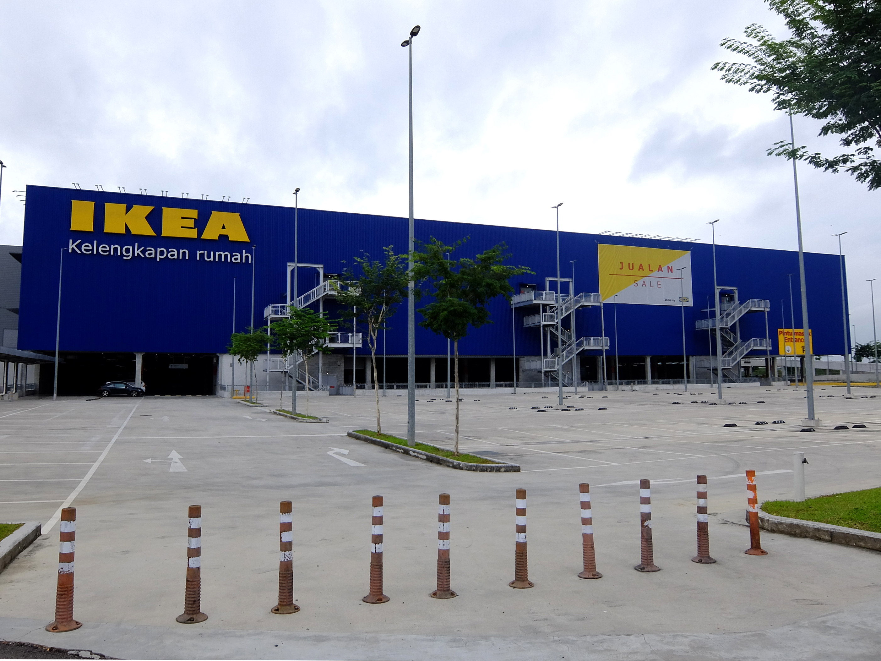 IKEA Tebrau, Taman Desa Tebrau, Johor Bahru, Johor, Malaysia